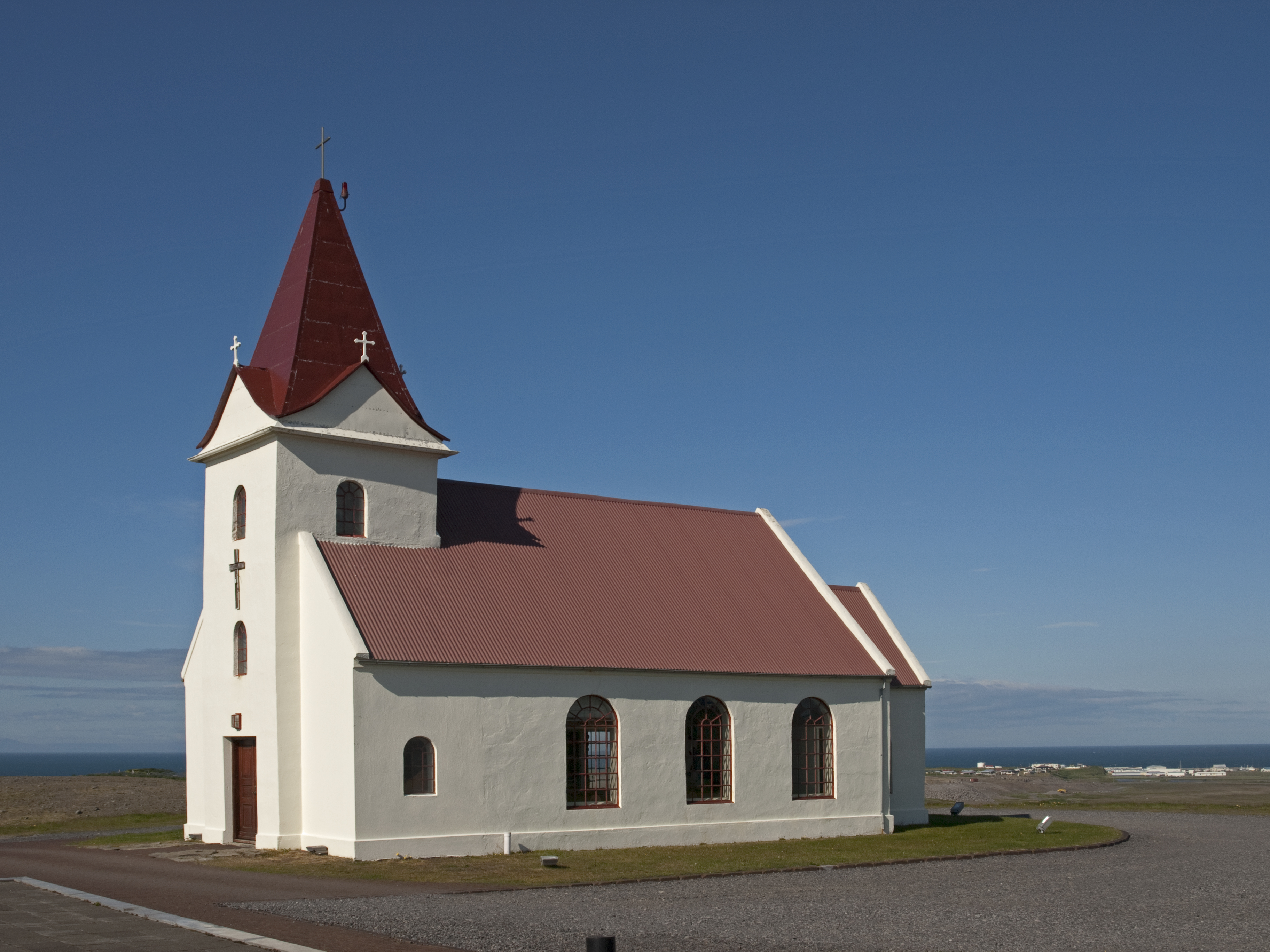 Ingjaldshóll Church, close to Hellissandur